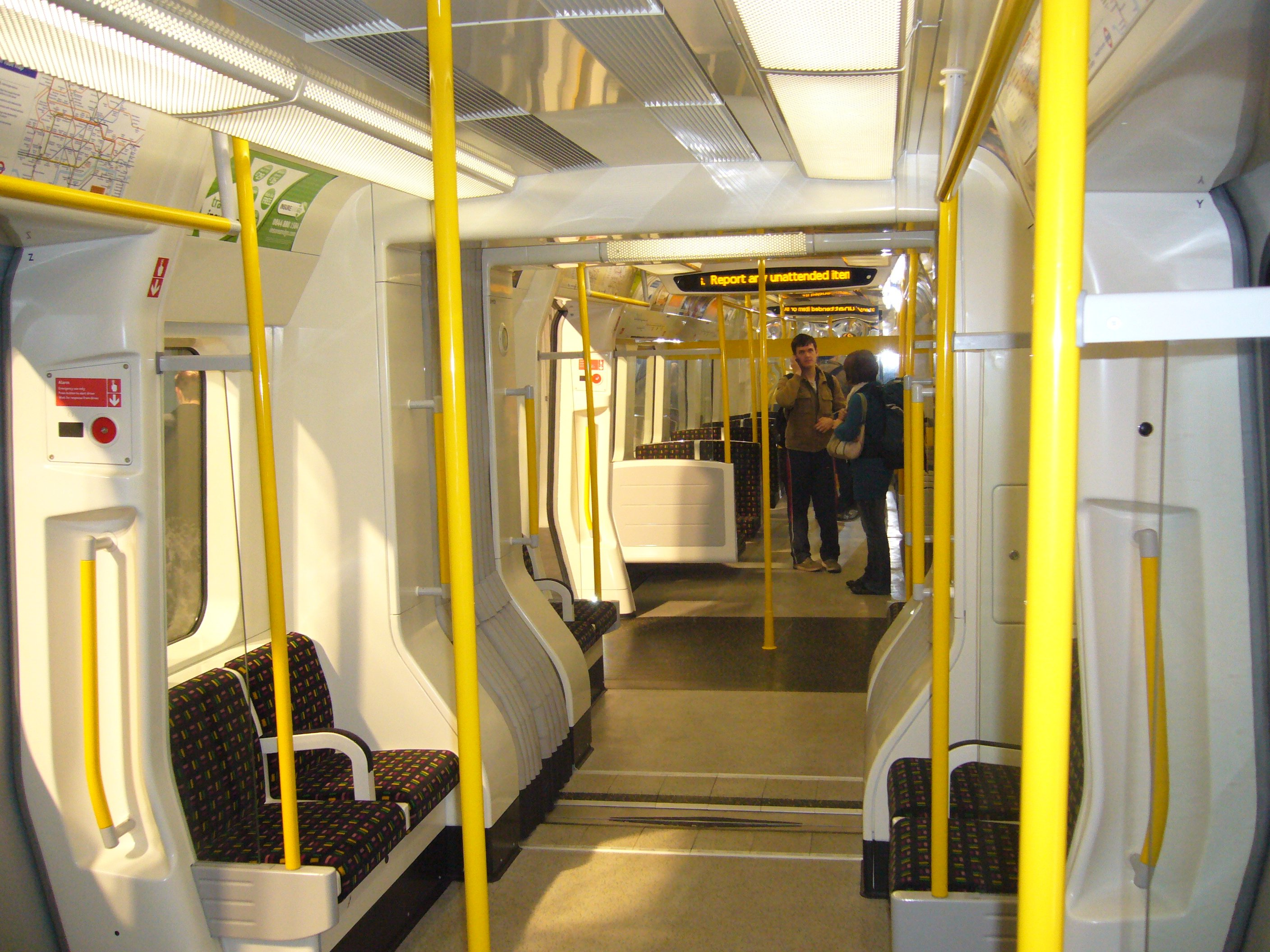 London Underground S Stock mockup - interior - Euston 29-Sept-08